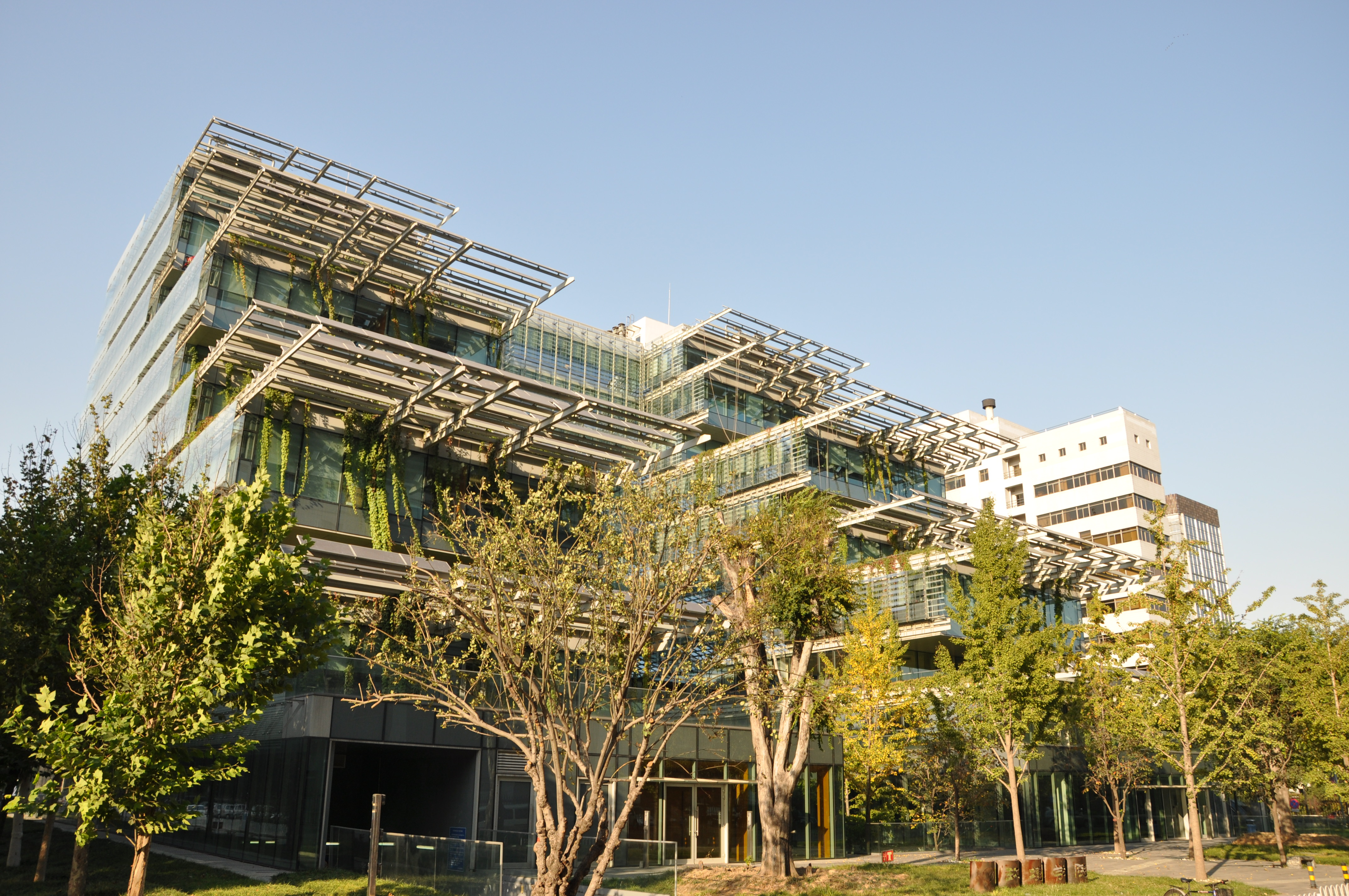 Sino-Italian Environment and Energy-efficient Building, pircture from southwest.